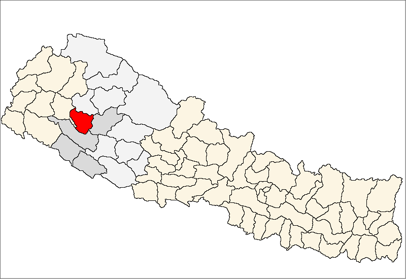 FrenchCarte de localisation dudistrict de Dailekh(wp-FR),au Népal (wp-FR).EnglishLocation map ofDailekh District(wp-EN),in Nepal (wp-EN).